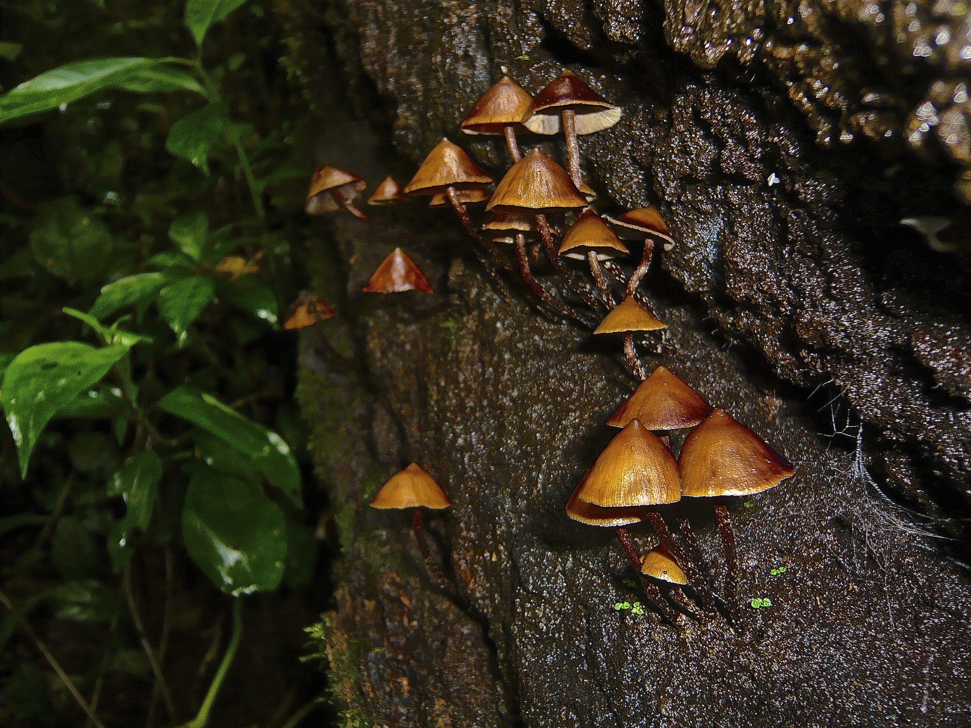 Psilocybe yungensis Singer & A.H. Sm Image location: Xalapa, Veracruz, Mexico Recognized by sight For more information about this, see the observation page at Mushroom Observer.